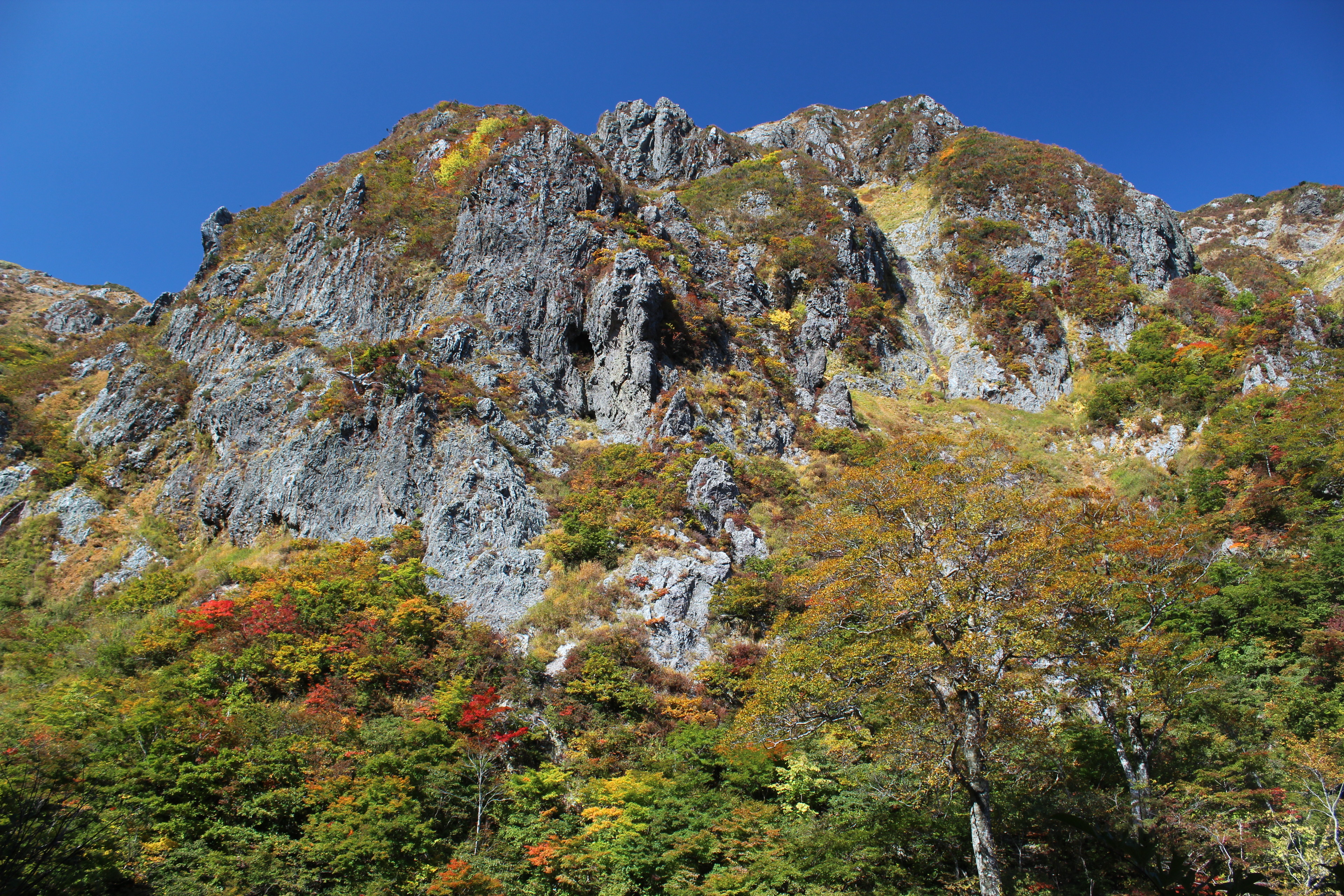 Yasha wall around Yasyagaike (Pond Yasya), Gifu Prefecture, Japan.